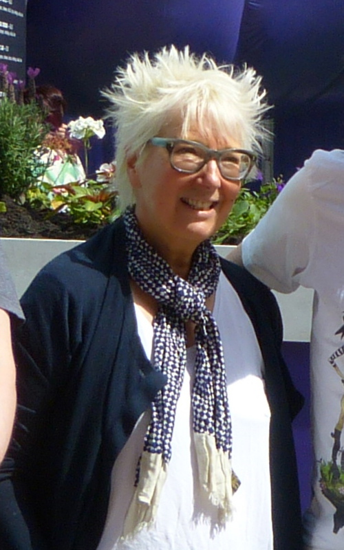 crop of Jenny Éclair from photo with Aisling Bea, David O'Doherty, Ed Byrne, Gary Delaney and Ben Van de Velde